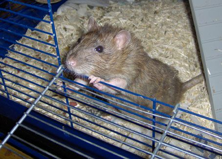 Fancy rat coming out of cage to run around in the room.